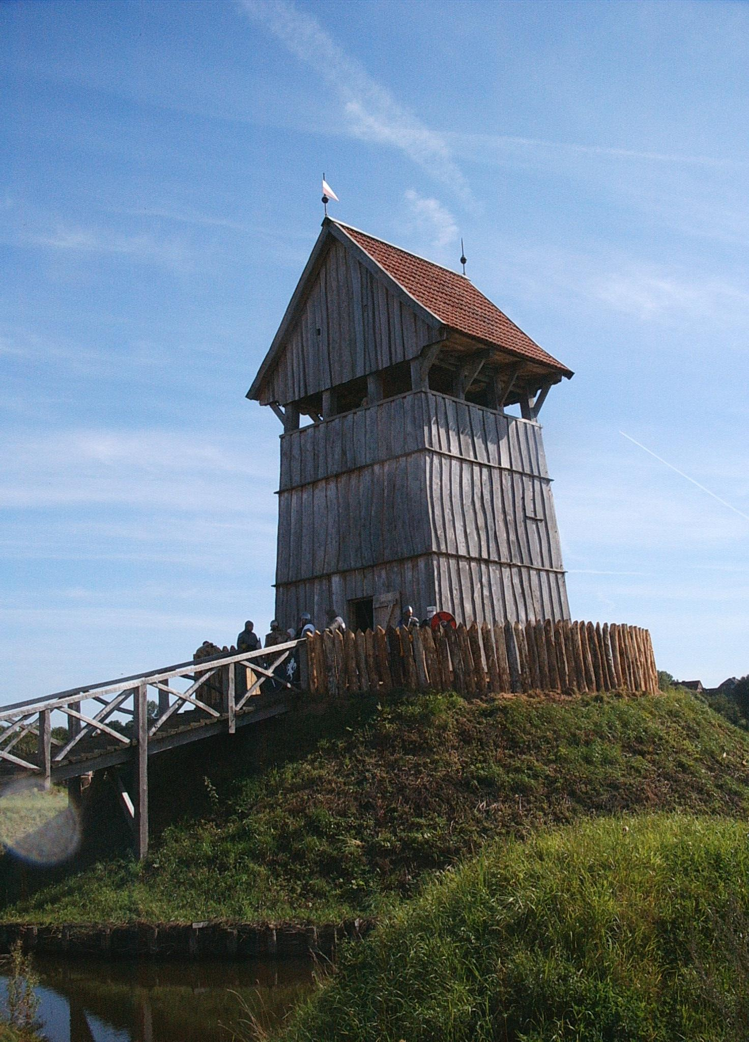 Reconstruction of a motte-and-bailey castle in Lütjenburg, Germany